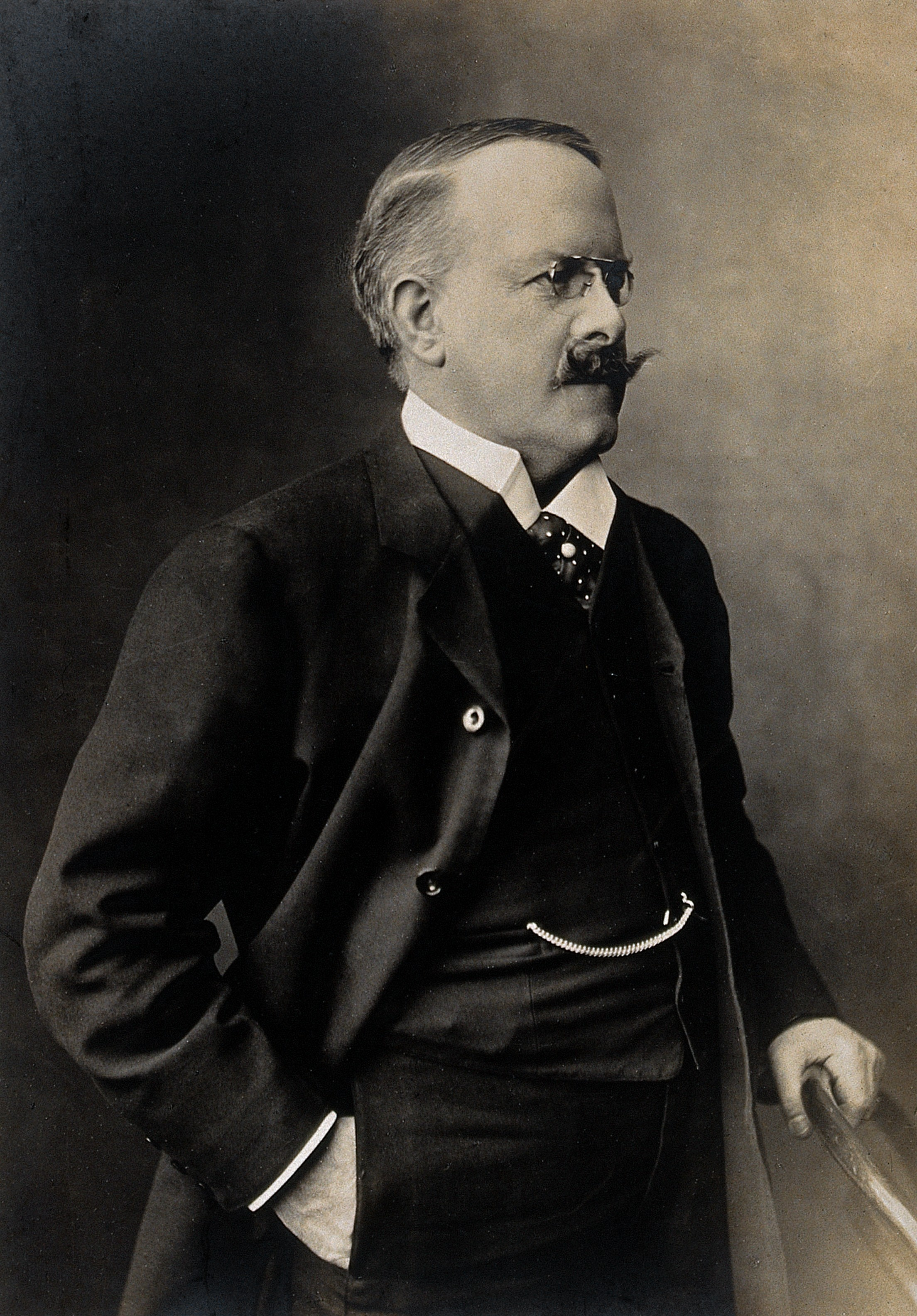 Thomas John Barnardo. Photograph by Stepney Causeway Studio. Iconographic Collections Keywords: portrait photographs; Thomas John Bernardo